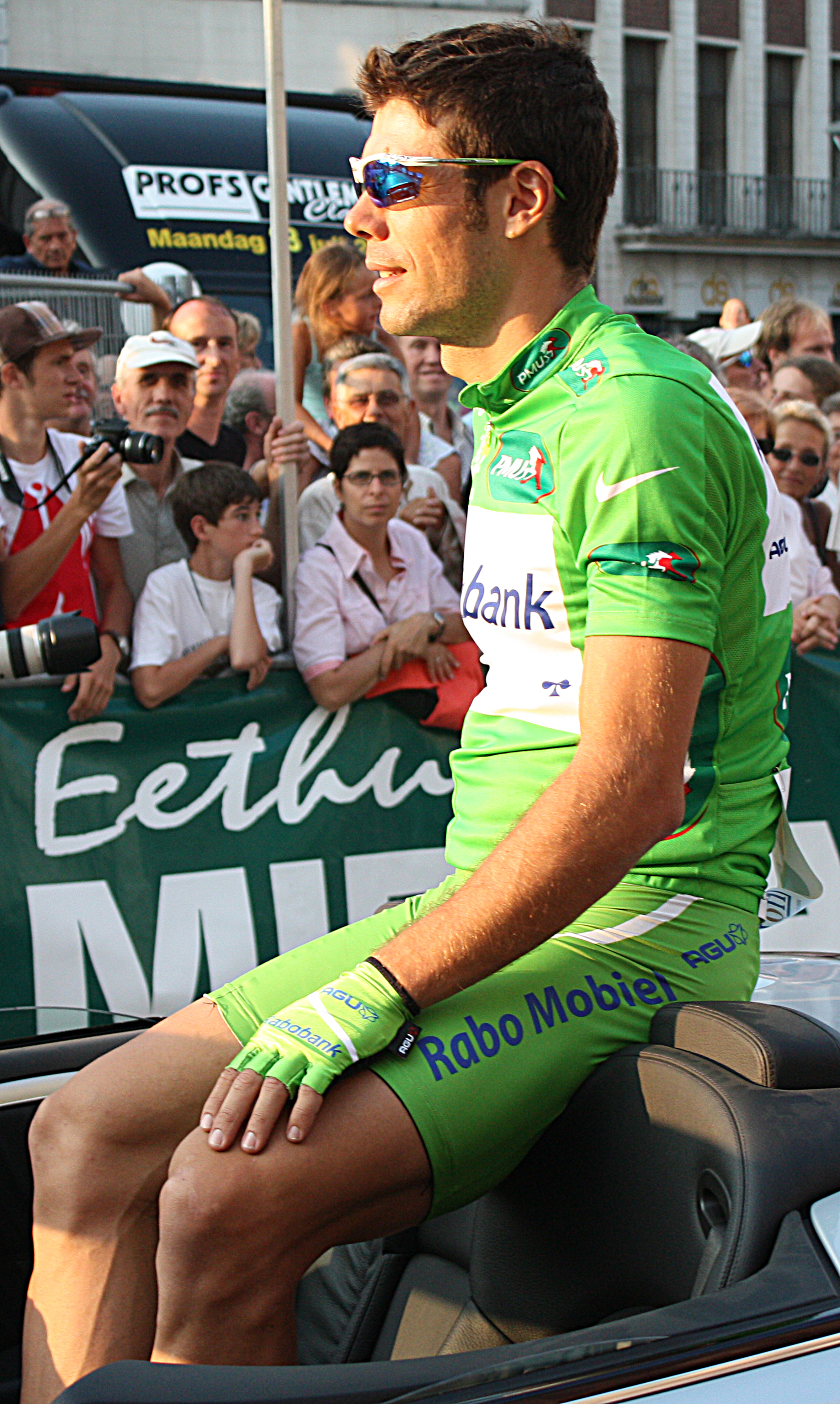 Óscar Freire in the green jersey that he won in the 2008 Tour de France, during a criterium in Aalst (28 July 2008)